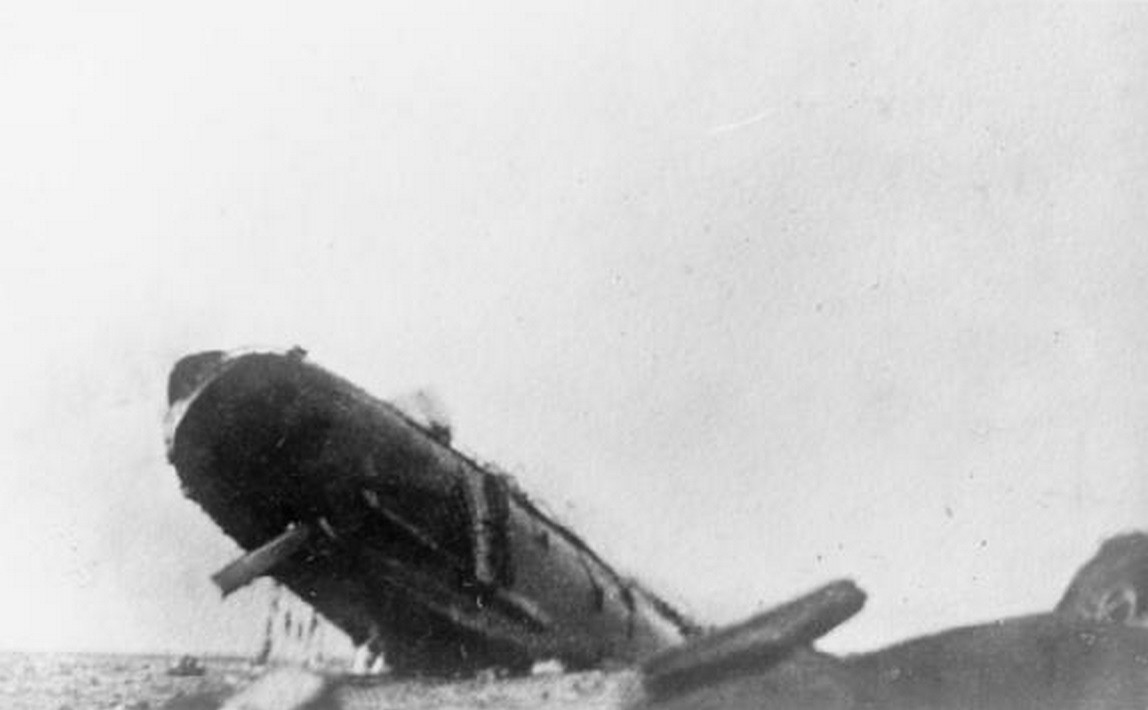 The troopship Arcadian sinking in the Aegean Sea after being torpedoed on 15 April 1917 en route from Salonika to Alexandria.